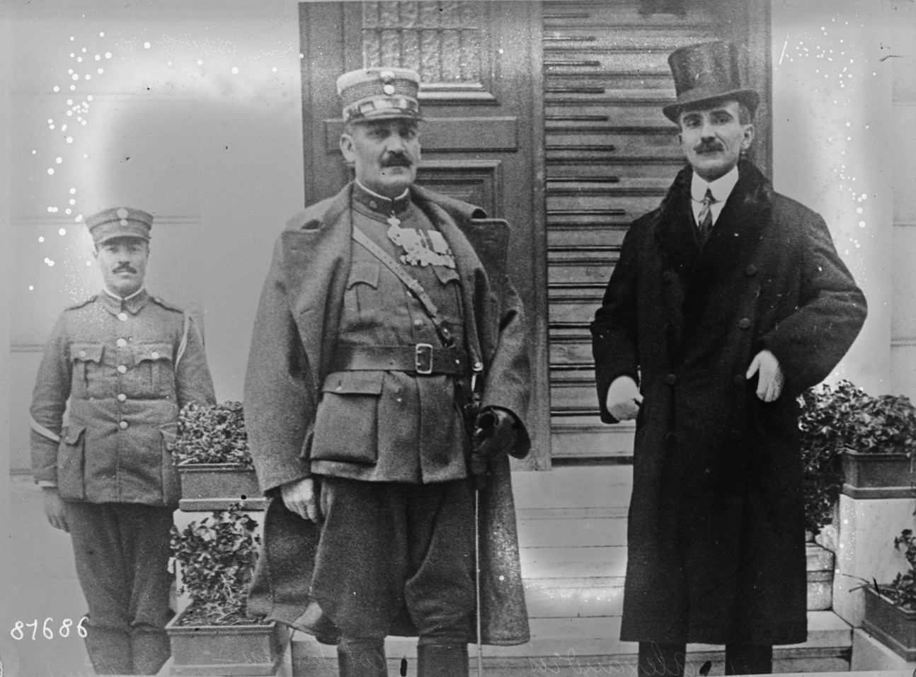 The leader of the revolutionary government, Colonel Stylianos, Gonatas and Foreign Minister Alexandris